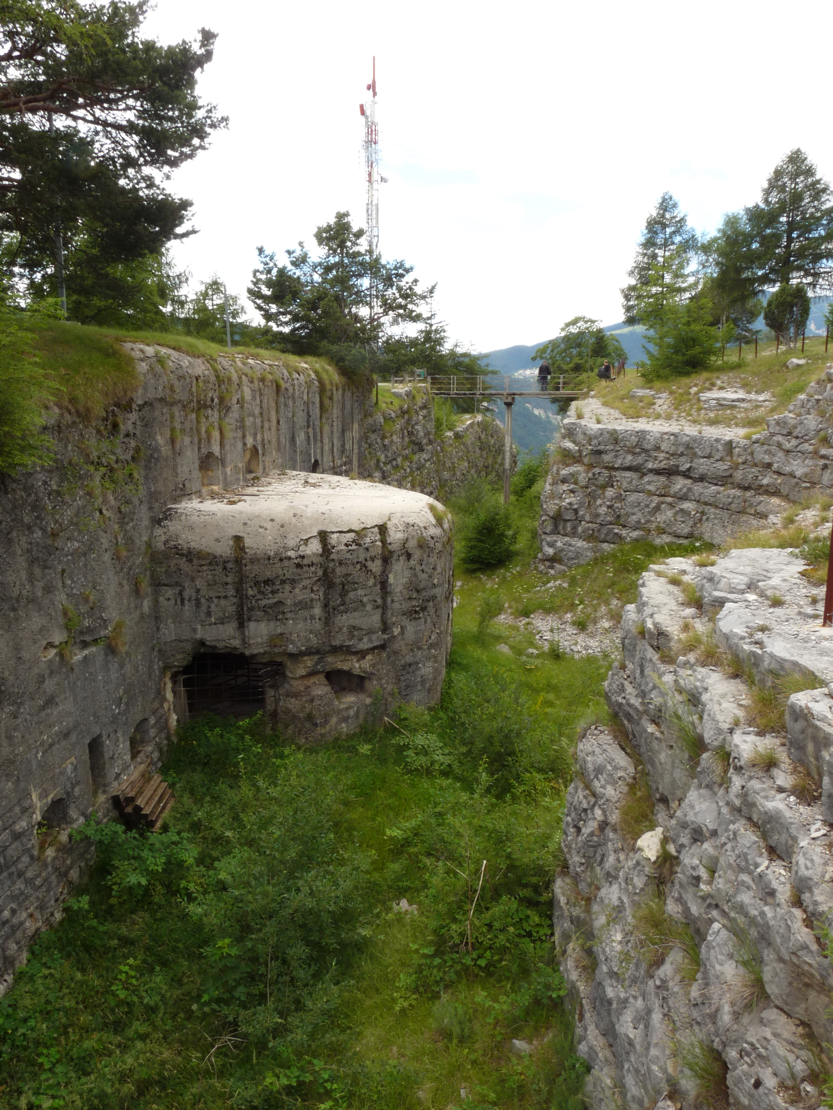 Lavarone (Italy): trench of Forte Belvedere (Werk Gschwendt)